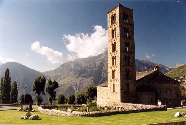 Exterior view of church of Sant Climent de Taüll (Spain)